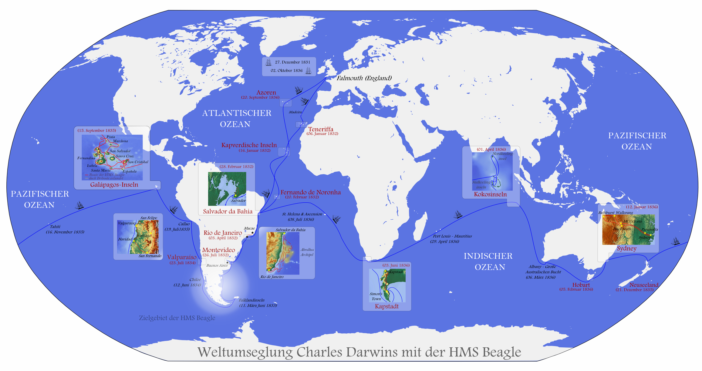 Charles Darwin's world journey on HMS-Beagle